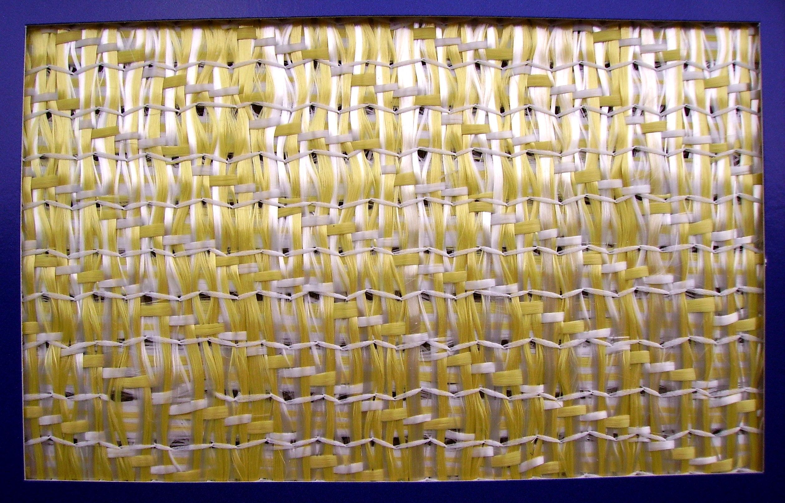 Glass/aramid hybrid area for high tension and compression. Used in the reinforced plastics industry. Weight 580 g/m2, thickness 0.80 mm. Side A (framed version).